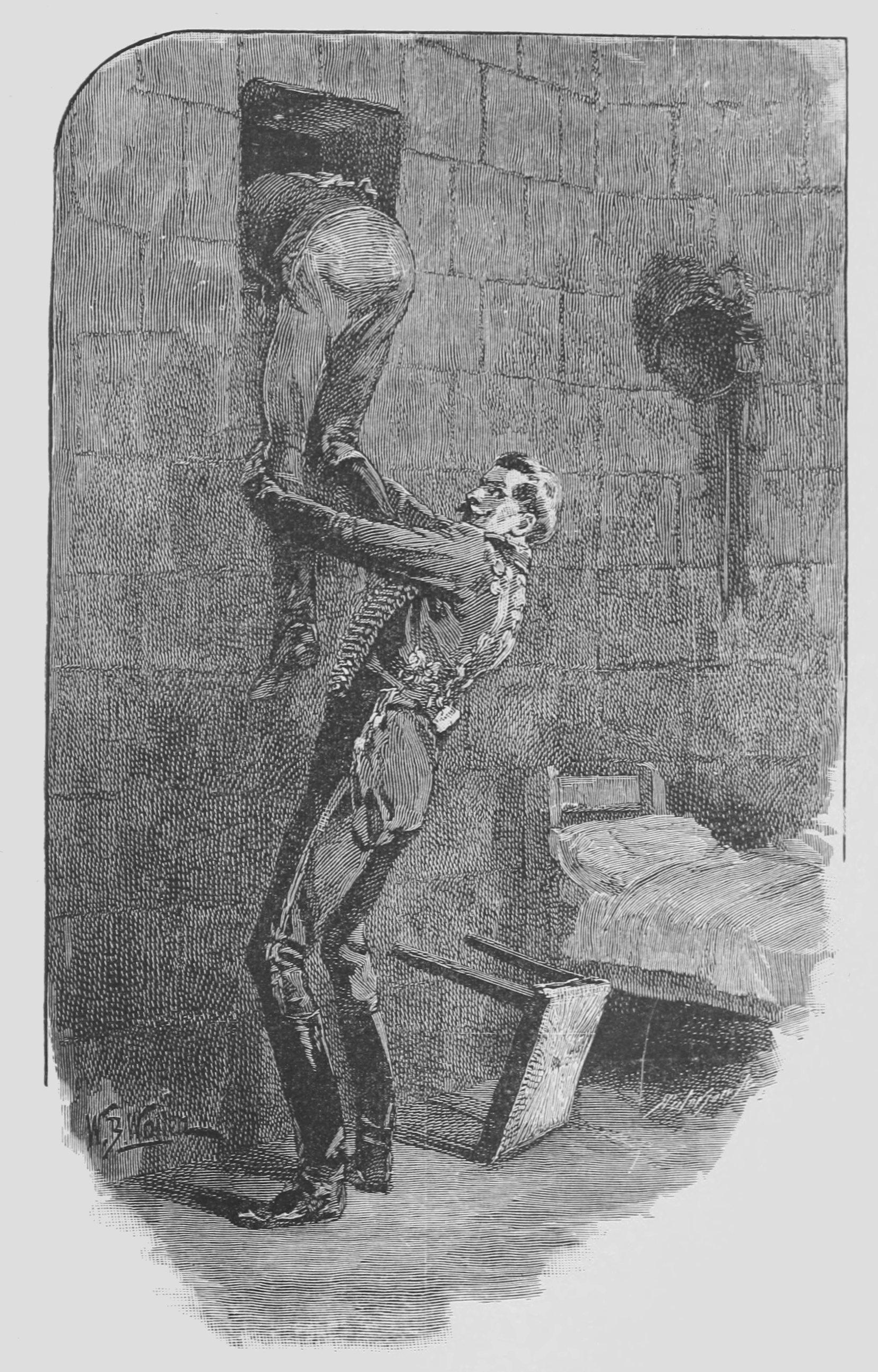 Plate of The Exploits of Brigadier Gerard